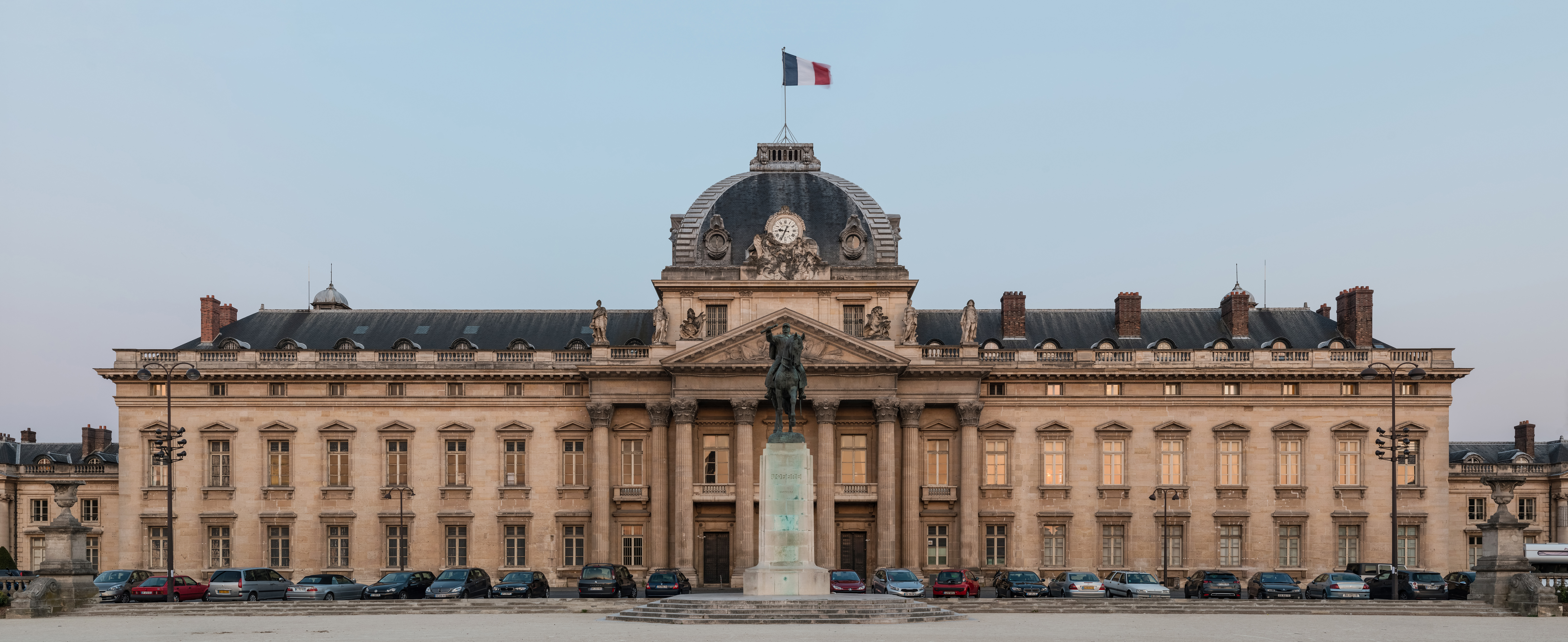 The central building of the École Militaire Complex in the 7th arrondissement of Paris at dusk.